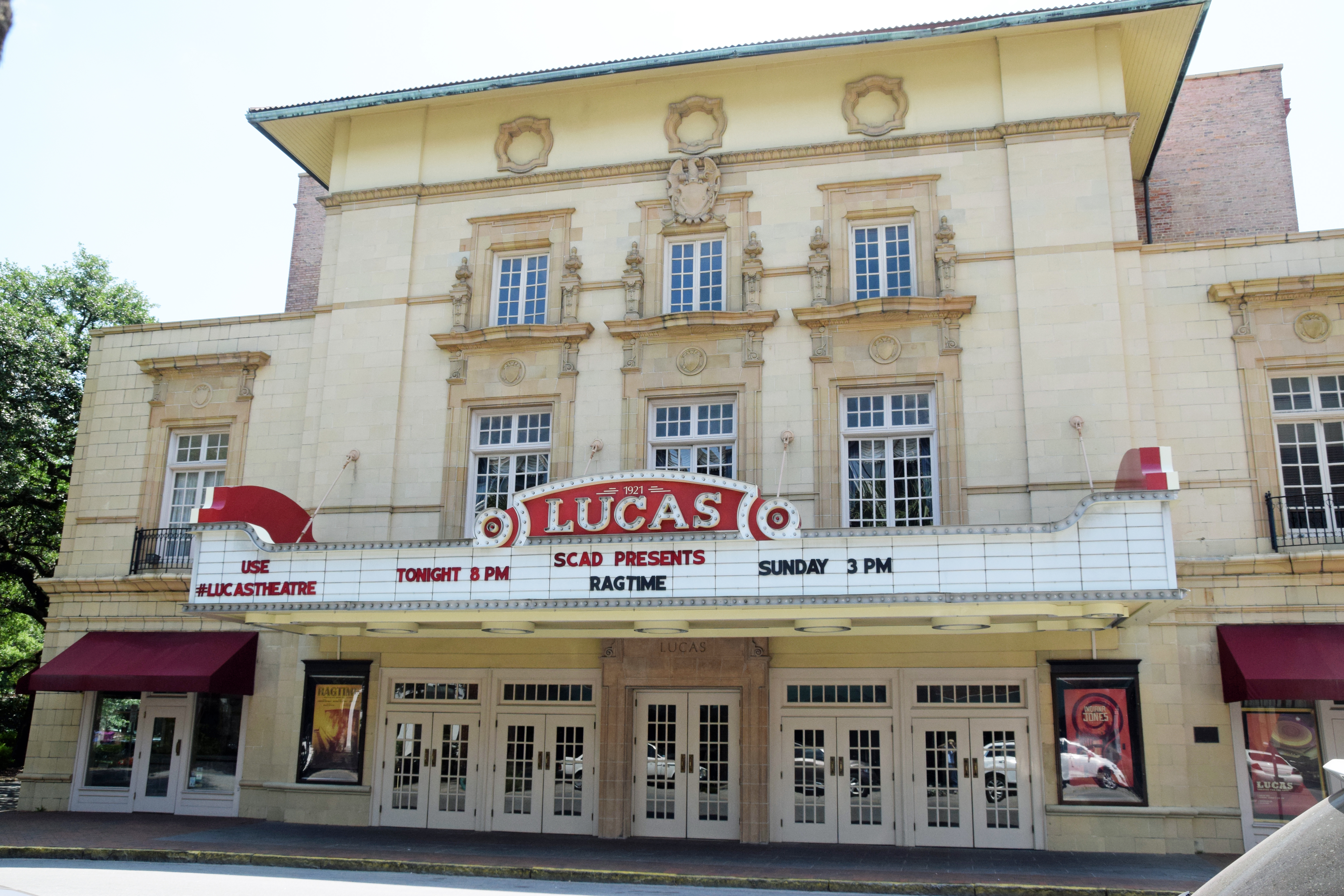 Savannah, Georgia USA - Lucas Theater of the Savannah College of Art and Design